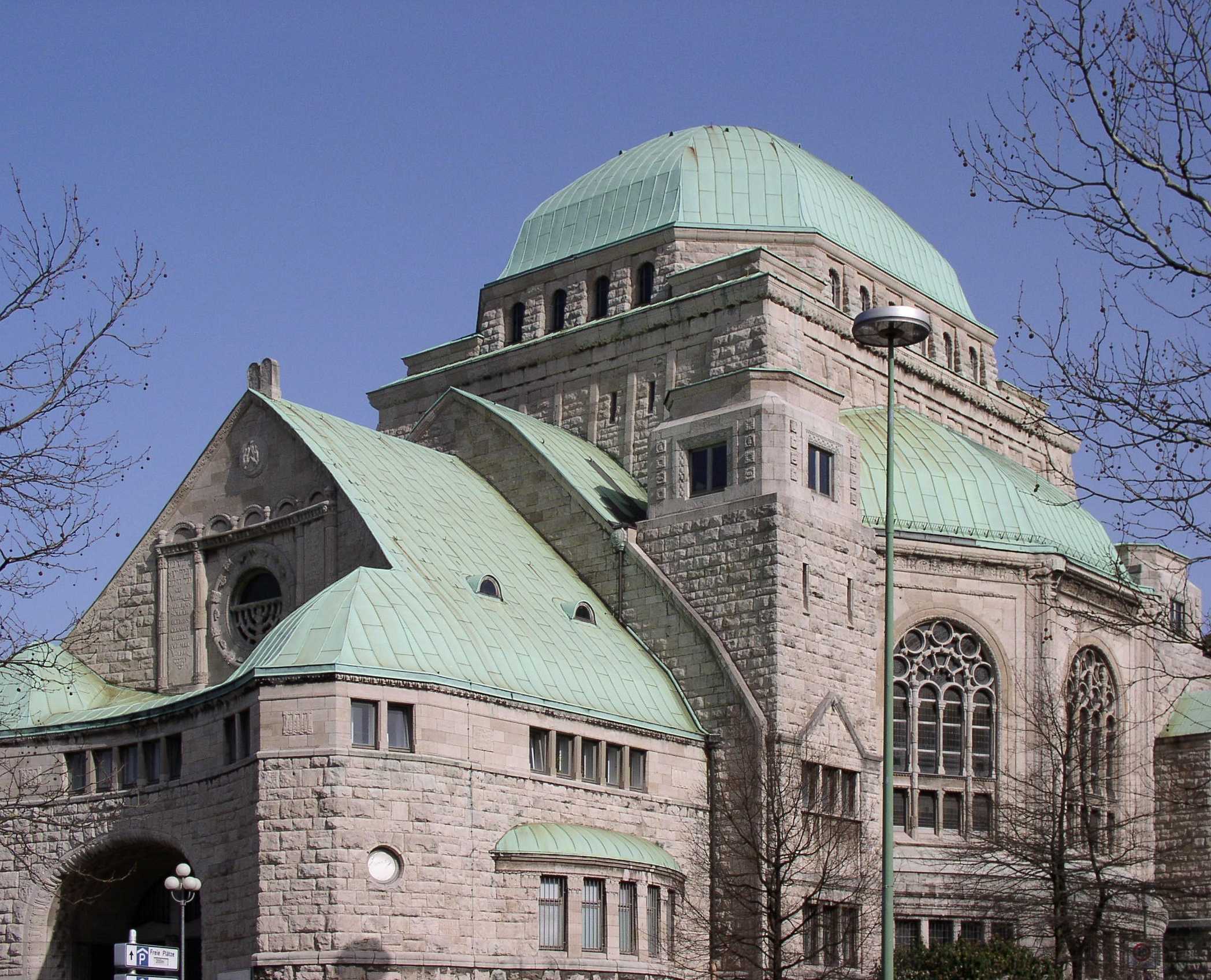 Beschreibung: Alte Synagoge in Essen Datum: fotografiert am 17.03.2004 Fotograf: Baikonur originally uploaded to on 18:13, 19. Mär 2004 by Baikonur, updated with higher resolution on 12:36, 30. Aug 2004 by Baikonur